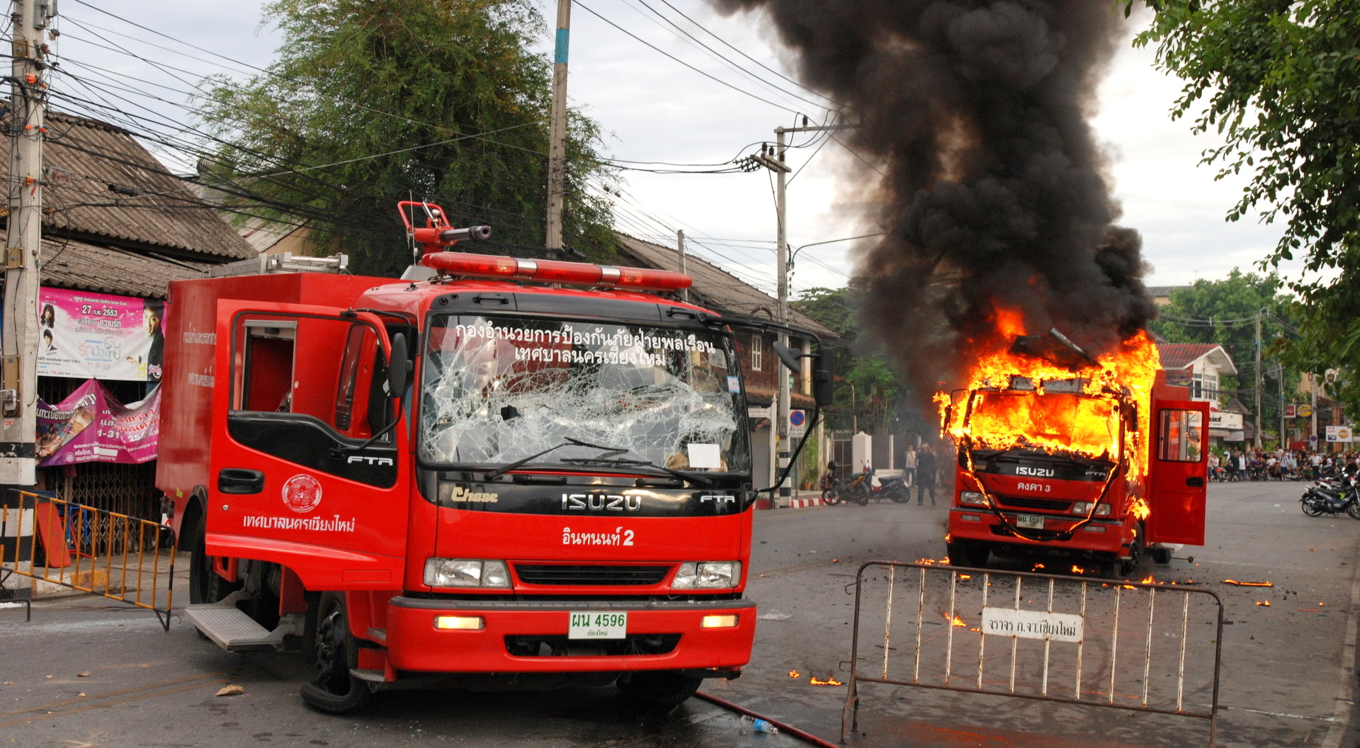 Unrest breaks out in Chiang Mai after the Bangkok crackdown. A fire truck is torched which came to put out fires which were started earlier by "red shirt" supporters at Chiang Mai's governor's residence and its immdiate surroundings on and near Naowarat bridge.